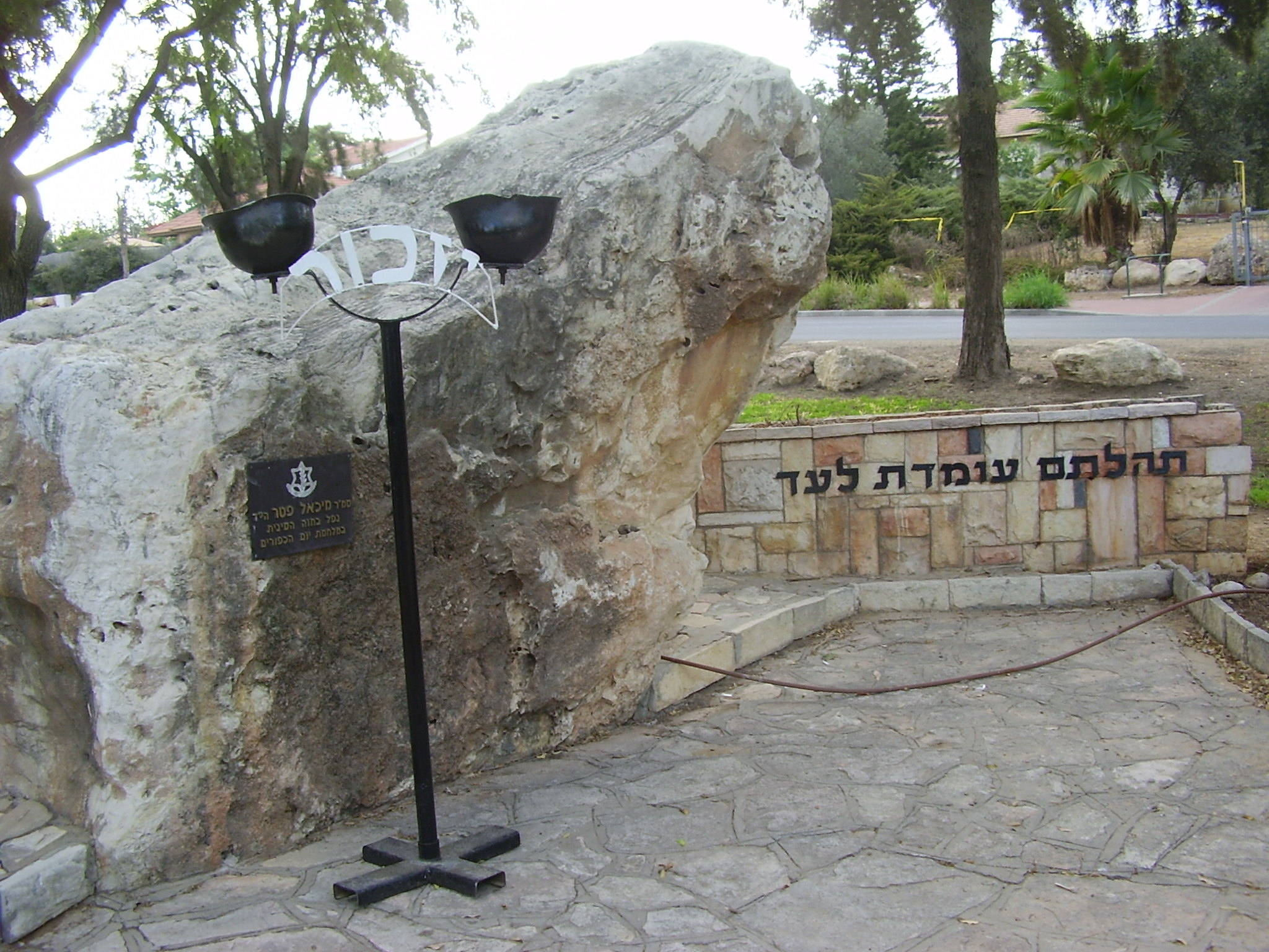 War memorial to Peter Michael in Kfar Truman